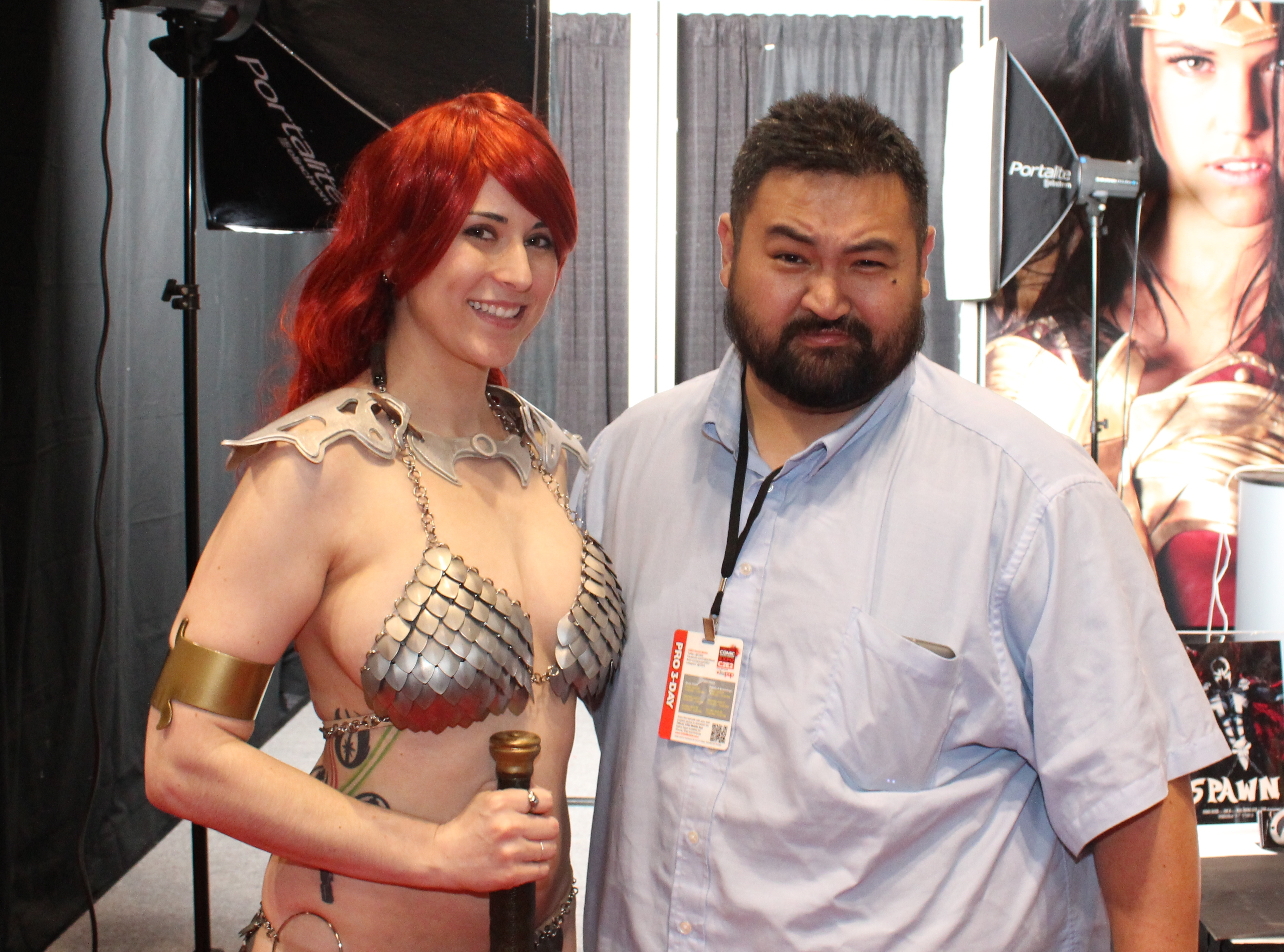 Cosplay at the 2013 Chicago Comic & Entertainment Expo (C2E2).